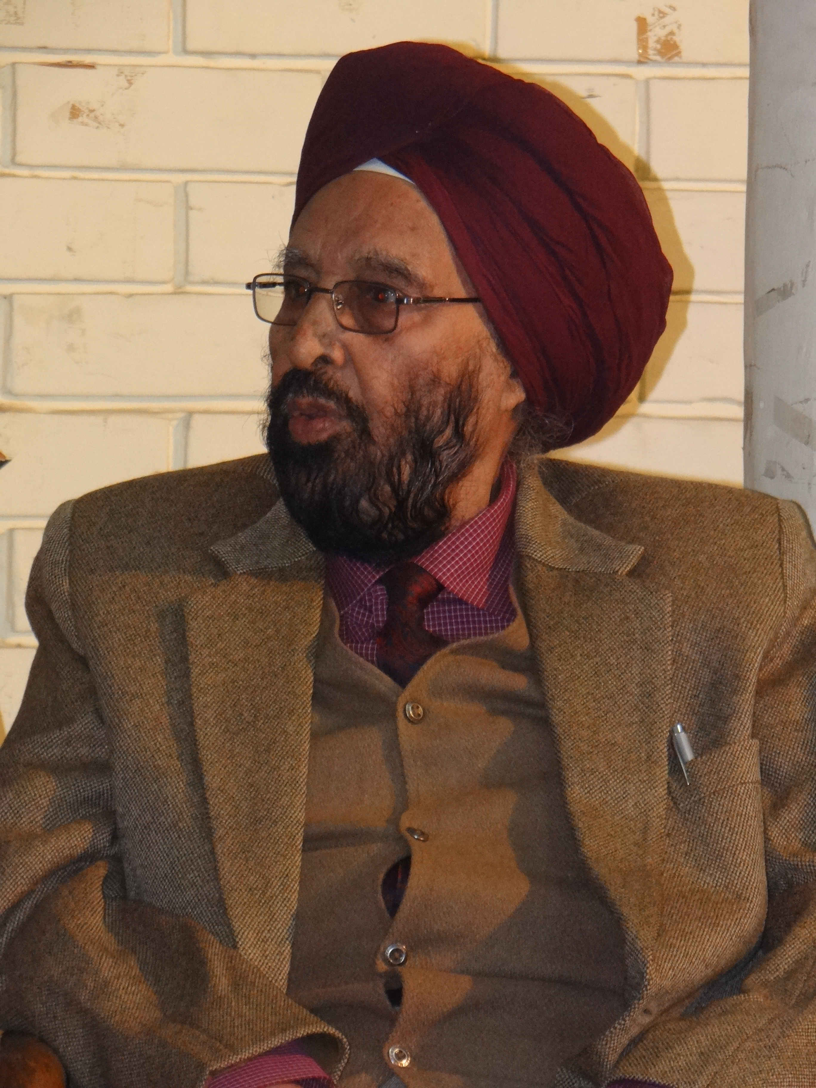 panjabi